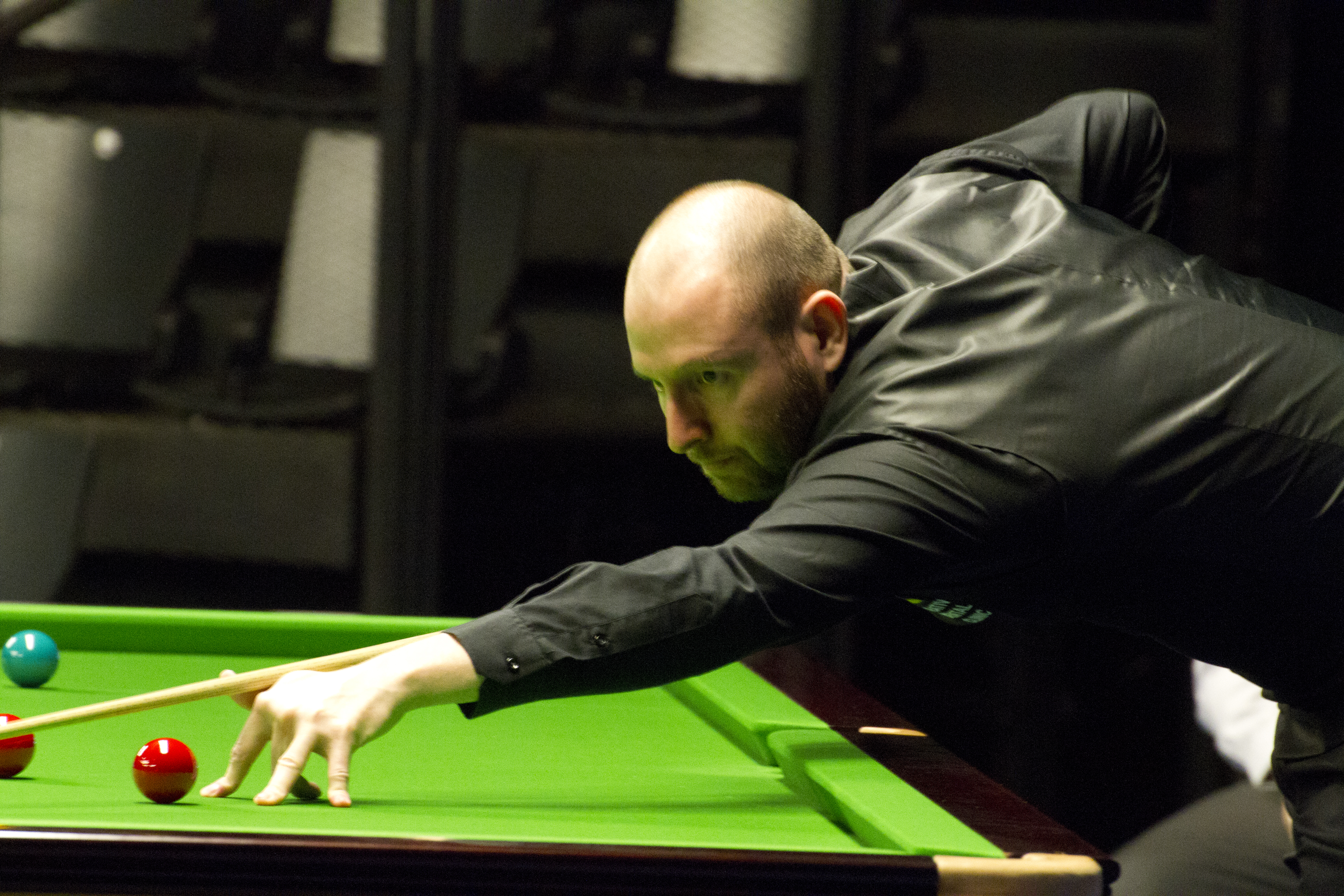 Round of last 32 Ding Junhui vs. Ryan Day (TV-table) Michael Georgiou vs. Alfie Burden Mathew Selt vs. Stuart Bingham